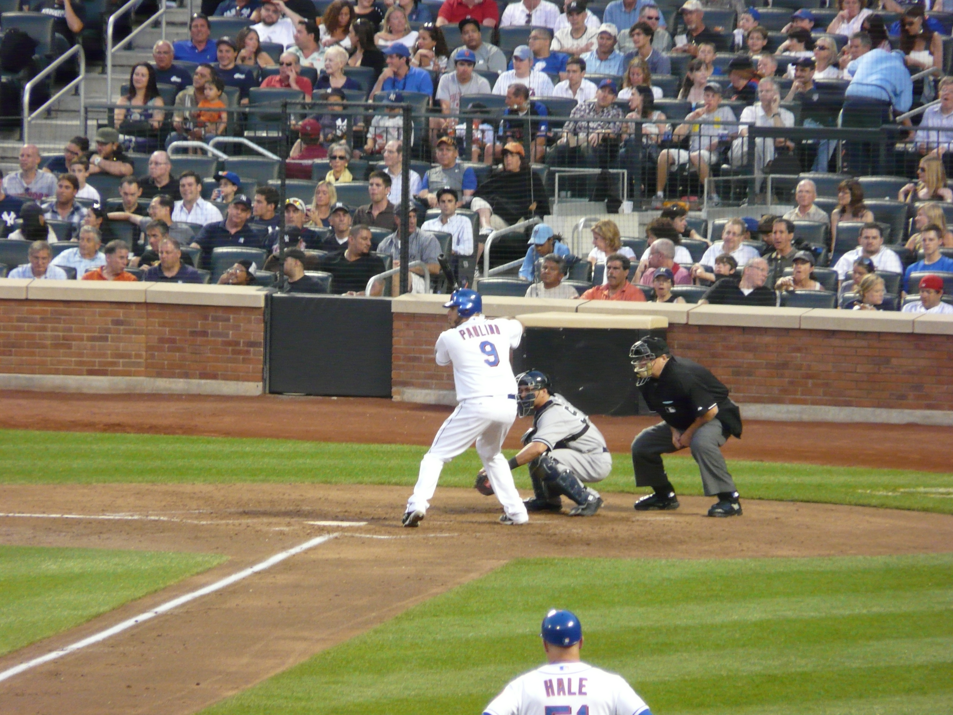 New York Yankees at New York Mets, July 1, 2011.